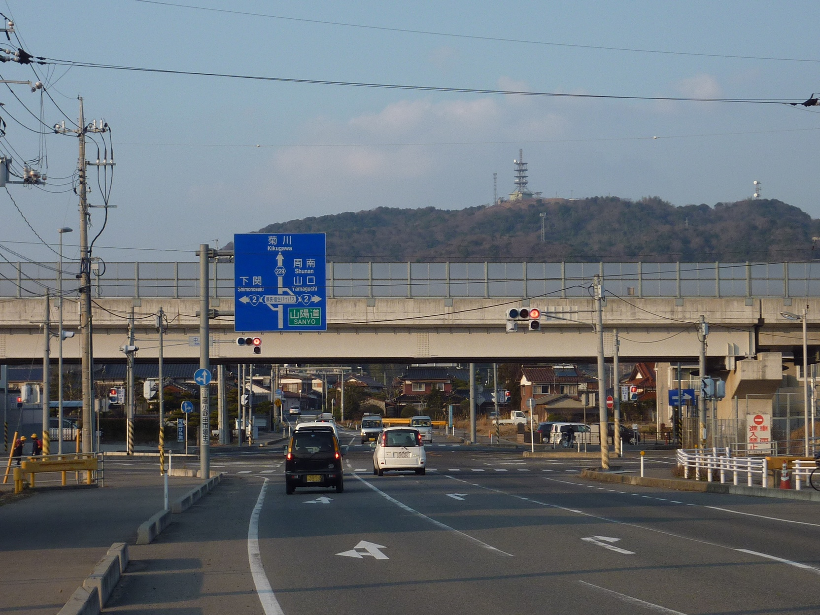 Yamaguchi Prefectural Road No.229 Habu Station Line (Habu, Sanyo-Onoda City, Yamaguchi Japan)